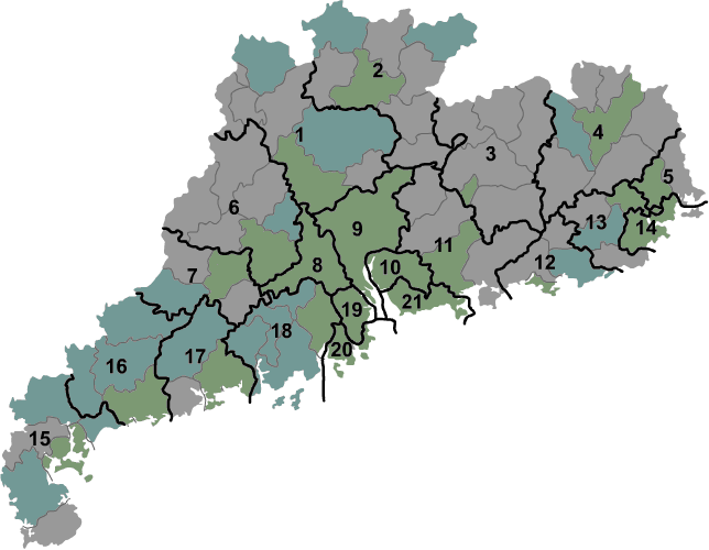 Map of prefectures of Guangdong Province